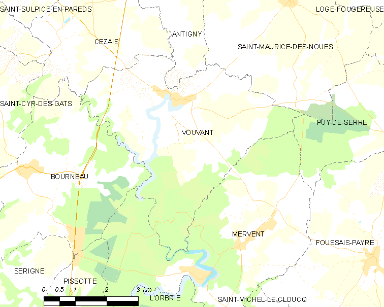 Map of French municipality Vouvant